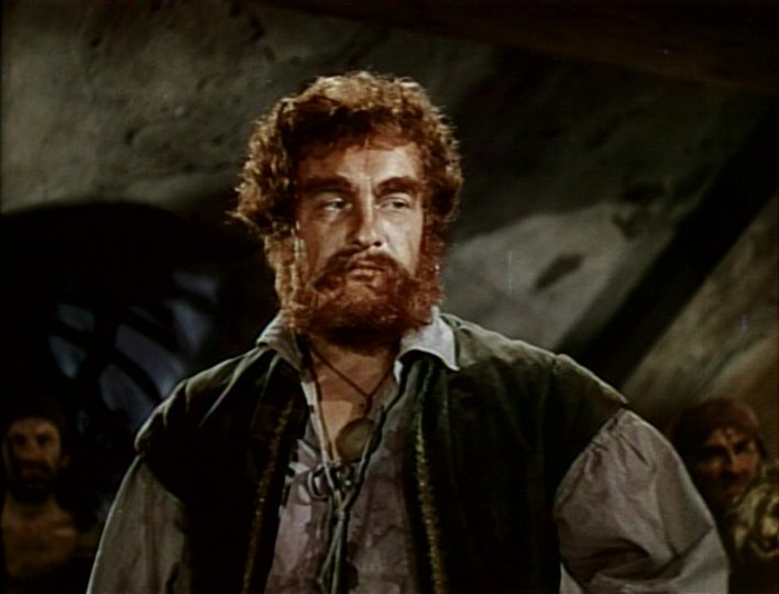 George Sanders in a screenshot from the trailer for the film The Black Swan.